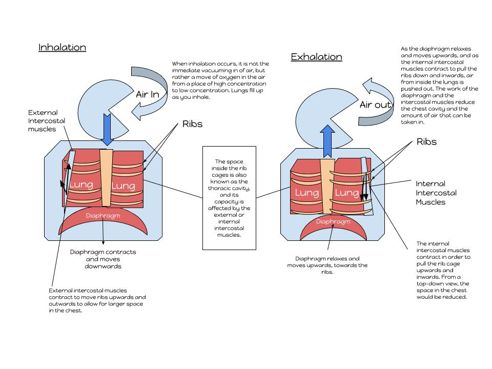 This diagram shows what inhalation and exhalation looks like, especially in relation to the size of the lungs, the position of the diaphragm, the position of the muscles, and the direction in which air is moving during these two activities.